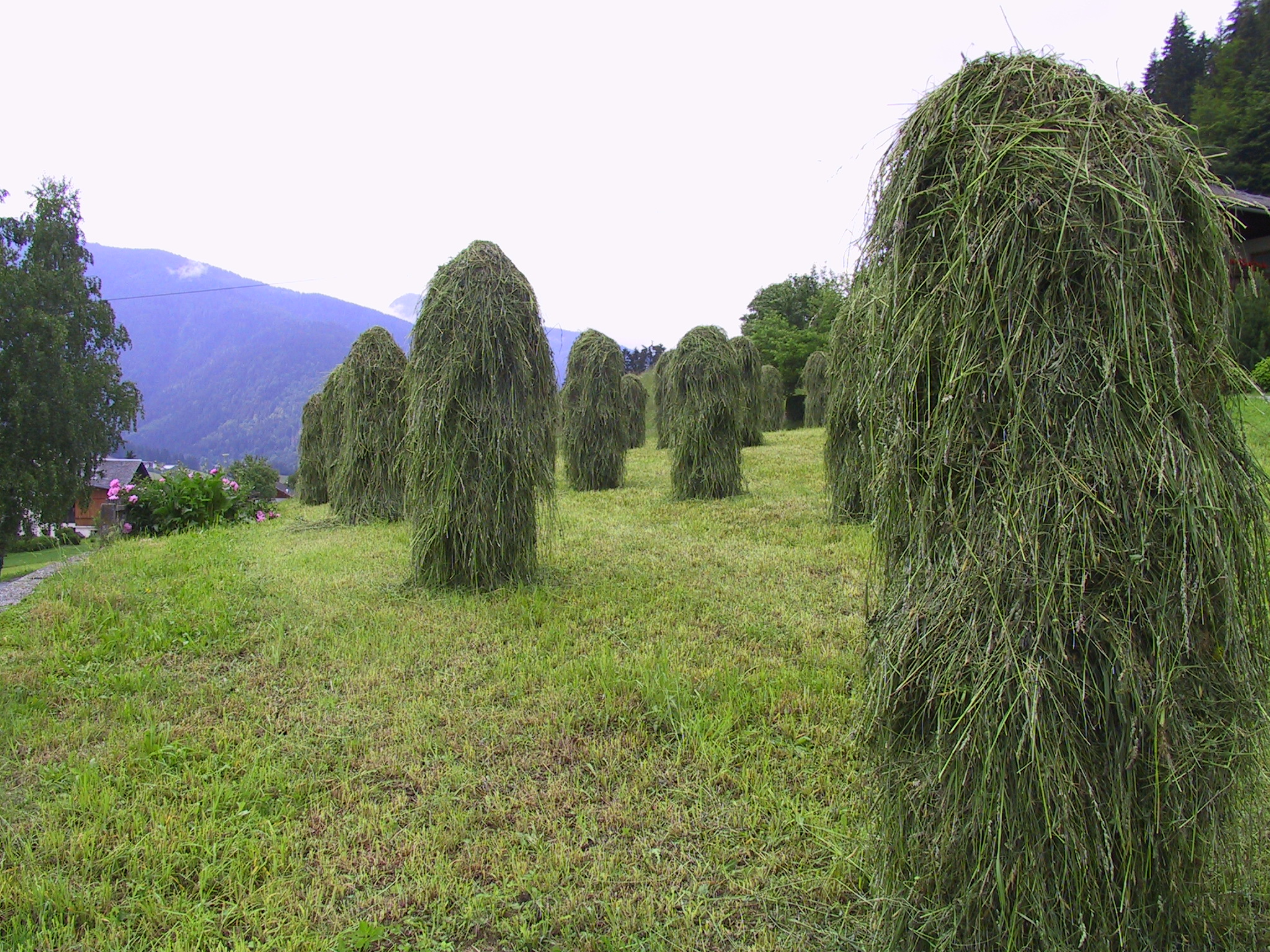 Hiefler with hay on it.